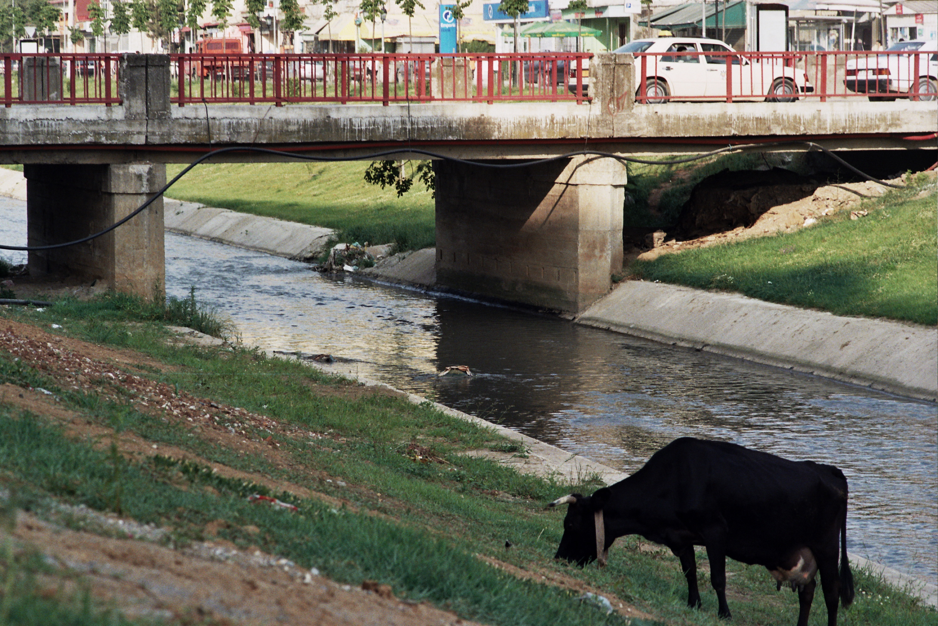 a cow grazing at the Lana river, Tirana, Albania